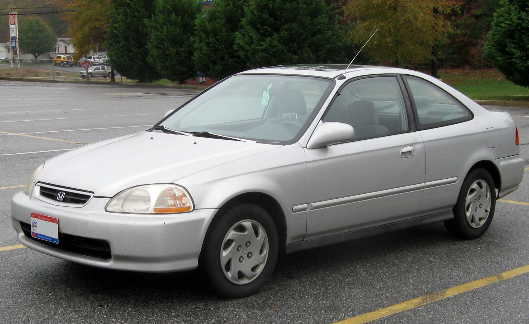 1996-1998 Honda Civic photographed in La Plata, Maryland, USA.